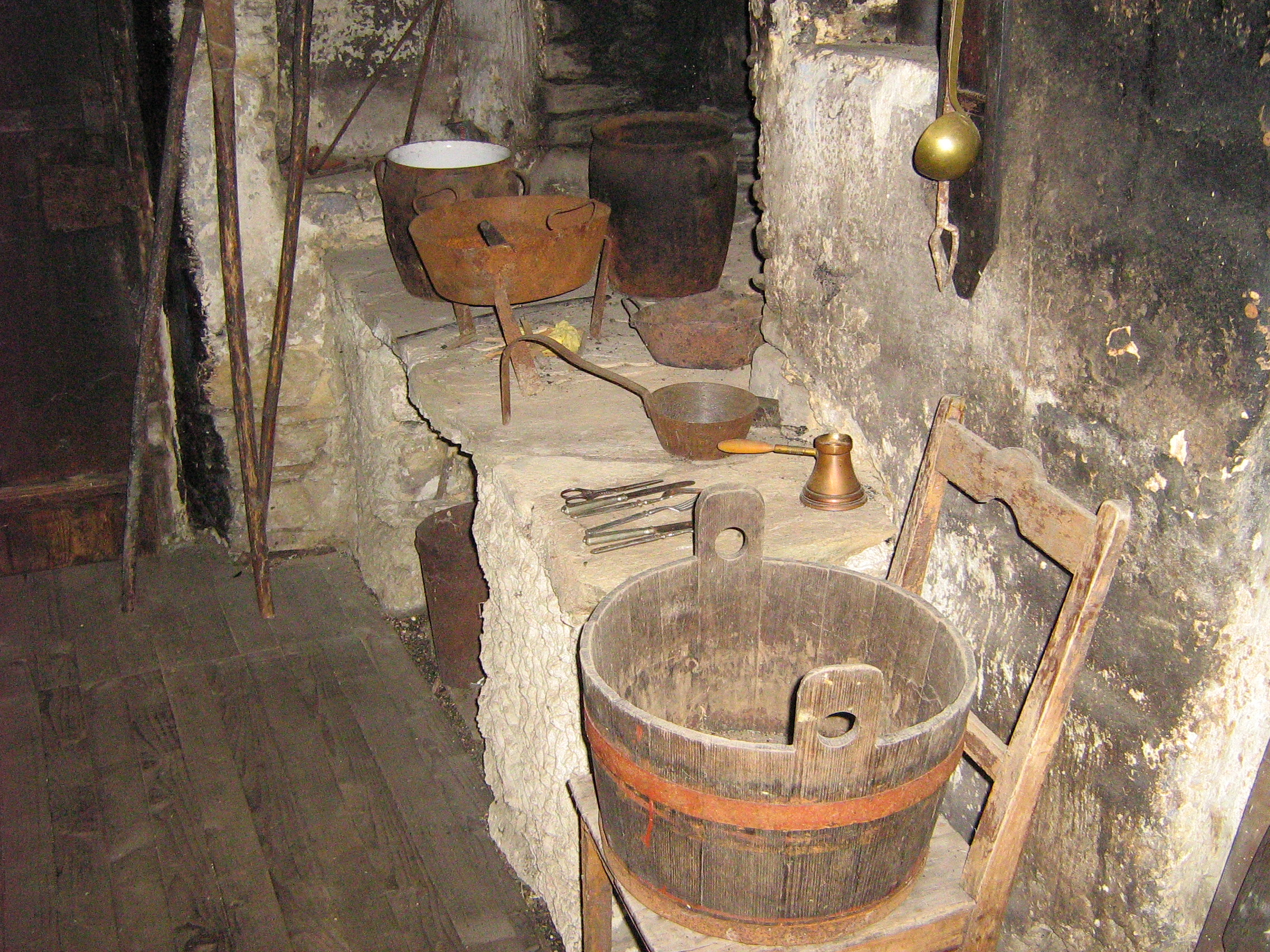 Black kitchen in ethnological museum in Bojtina, Slovenia